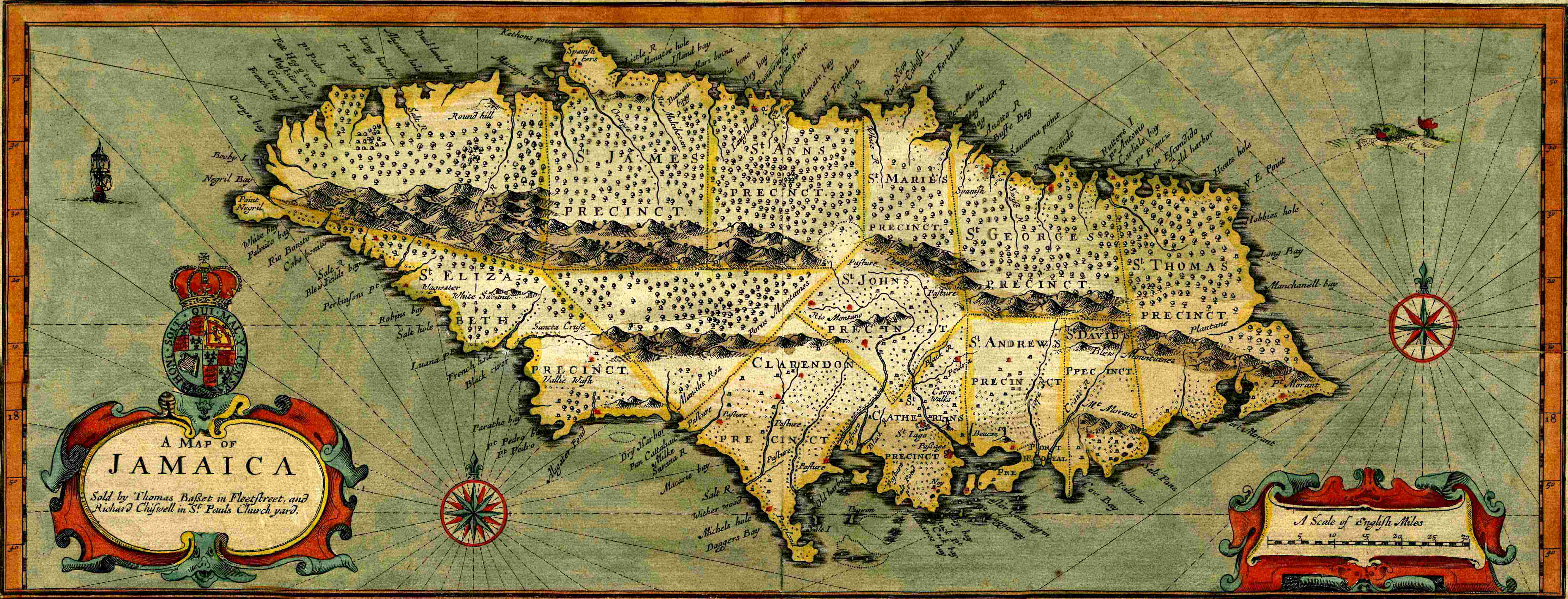 The top half of a hand tinted map of Jamaica and Barbados by John Speed dated 1676. Printed by Thomas Basset and Richard Chiswell, London England. On the reverse there is a description of the two islands. 16" x 21".